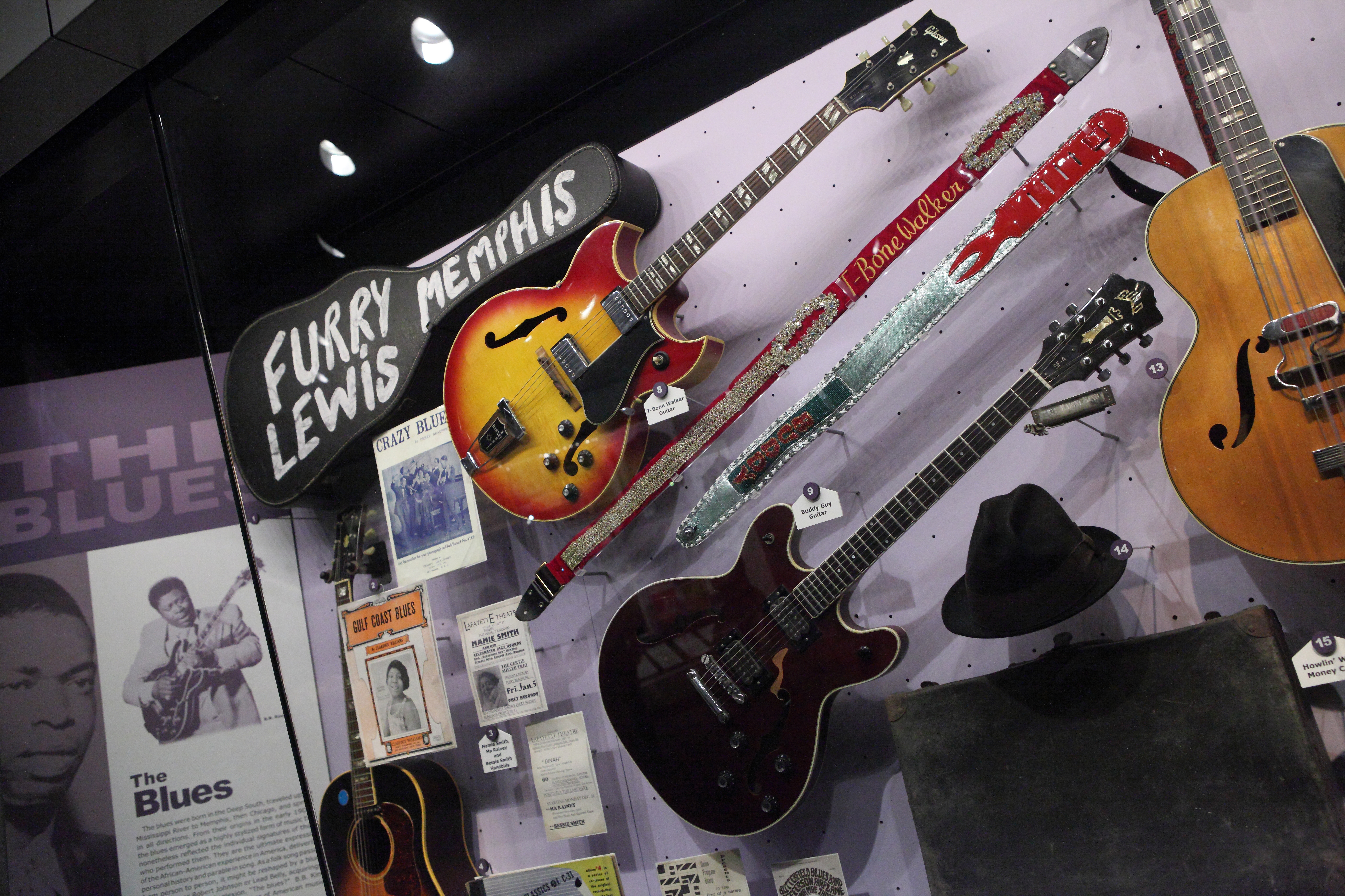 Guitars in The Blues area at the Rock and Roll Hall of Fame in Cleveland, Ohio. Flickr Tags: Rock and Roll Hall of Fame Cleveland Ohio The Blues guitar instrument Buddy Guy T-Bone Walker. from Flickr album "Rock and Roll Hall of Fame" by Sam Howzit